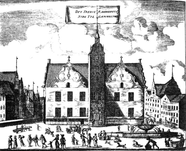 Copenhagen City Hall (1479-1729) as it appeared after the redesign in 1608-10 as seen from Gammeltorv